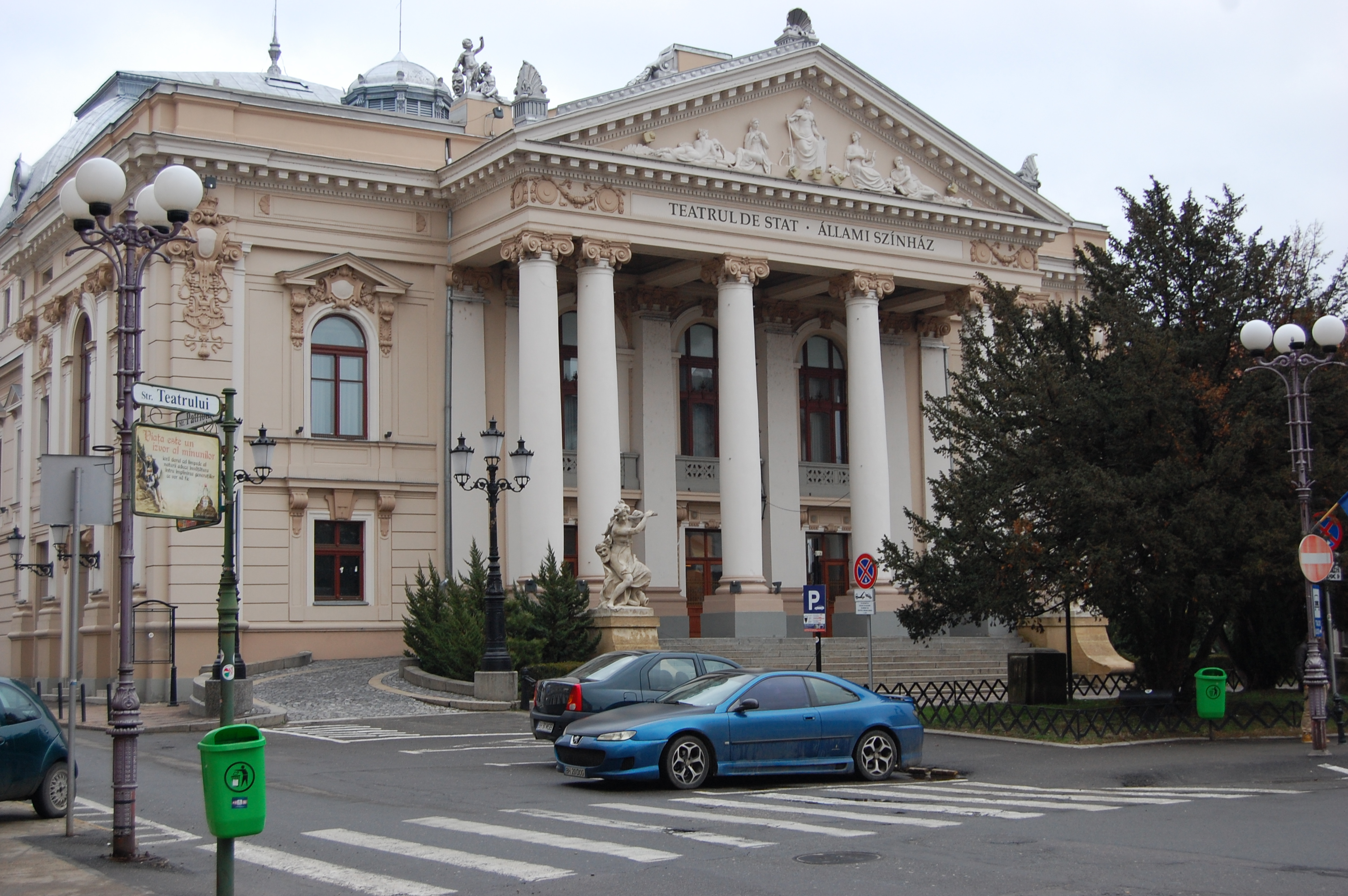 Theater in Oradea (Transylvania, Romania)